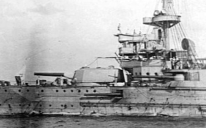 AWM caption : "Gallipoli Peninsula, Turkey. October 1915. The forward guns of HMS Swiftsure as she lay in Suvla Bay off Anzac. The wave painted at the bows and the wash painted on the side are meant to deceive the enemy gunners. The Swiftsure's guns were 10-inch and 7.5-inch, and it was said, at that time, that ammunition for the 10-inch guns was no longer being made." This is a clip from File:HMS Swiftsure forward guns Gallipoli 1915 AWM G01393.jpeg